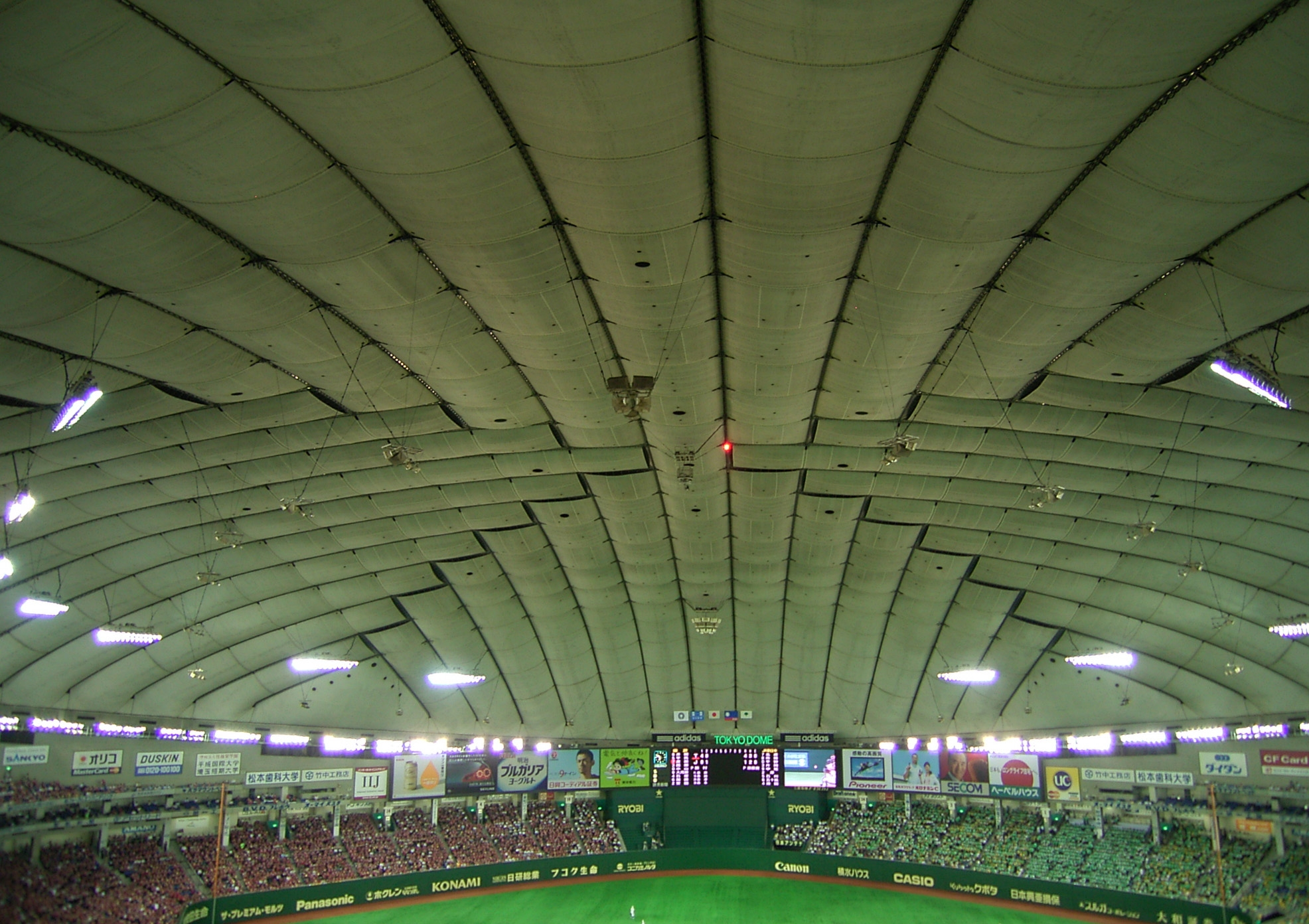 The Intercity Baseball Tournament 2007 Tokyo Dome